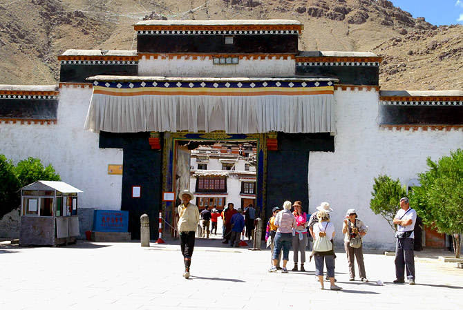 Entrance to Tashilhunpo Monastery, Shigatse, Tibet Autonomous Region, China